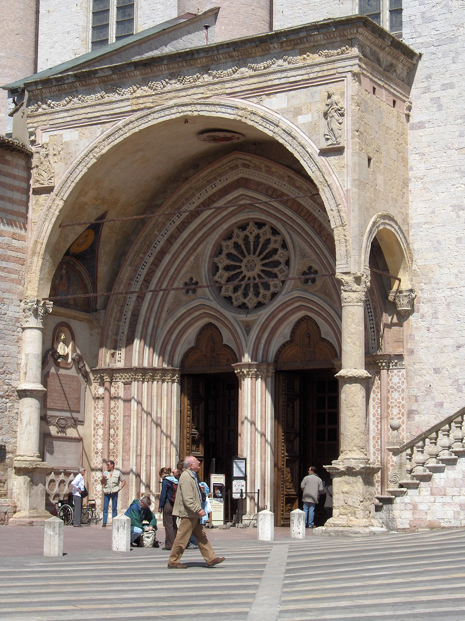 Main portal to the lower Basilica of Saint Francis; Assisi, Italy